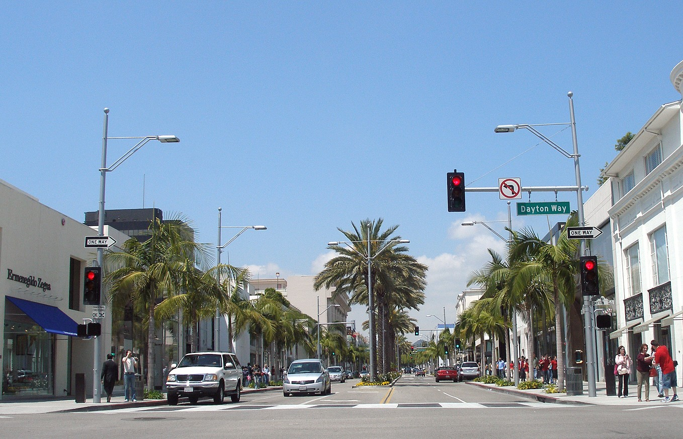 Rodeo Drive in Beverly Hills, California, as seen facing northbound from Wilshire Boulevard. Photographed by user Coolcaesar on April 21, en:2007.